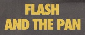 Flash and the Pan - Welcome to the Universe (Mercury Austria 1980, cover title)